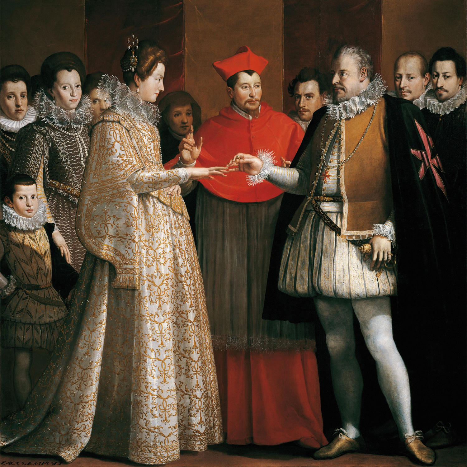 Maria de Medici's marriage by proxy with Henry IV of France, represented by Ferdinand I, Grand Duke of Tuscany.